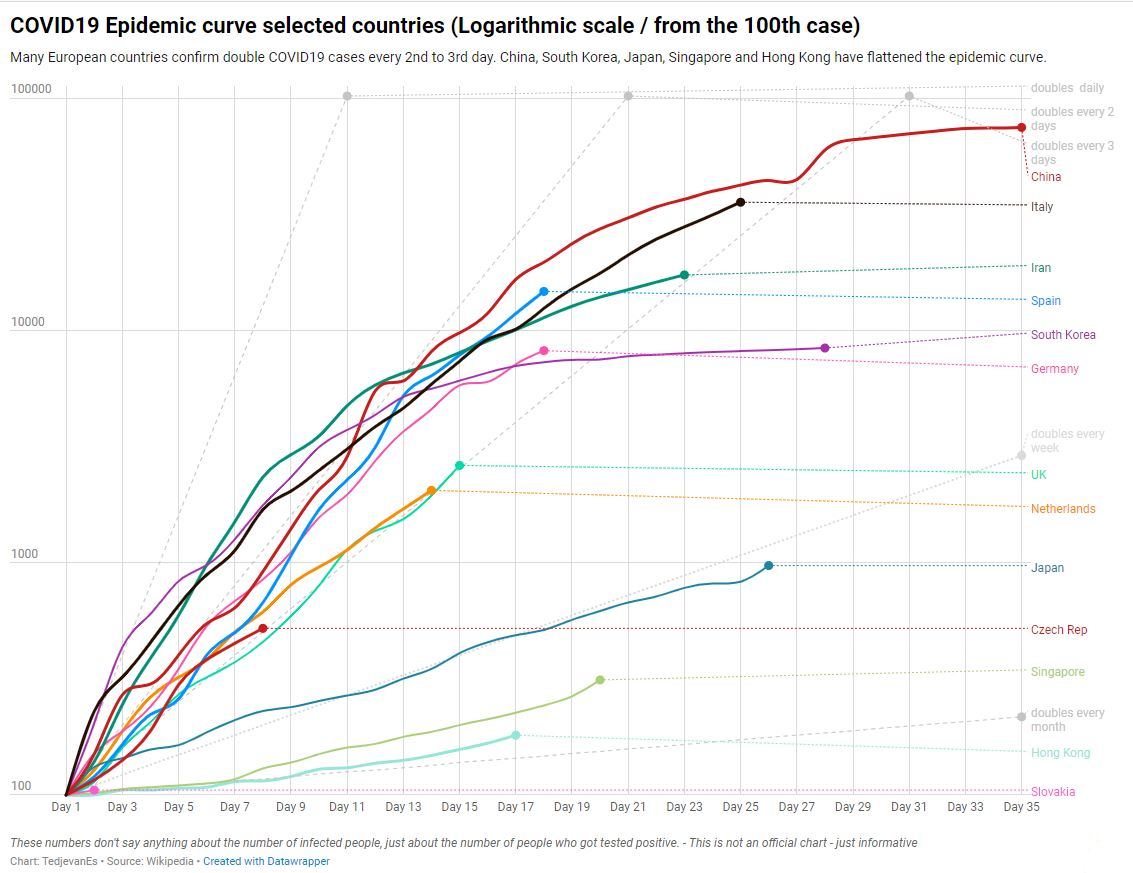 COVID-19 epidemic curve update 18 march 20